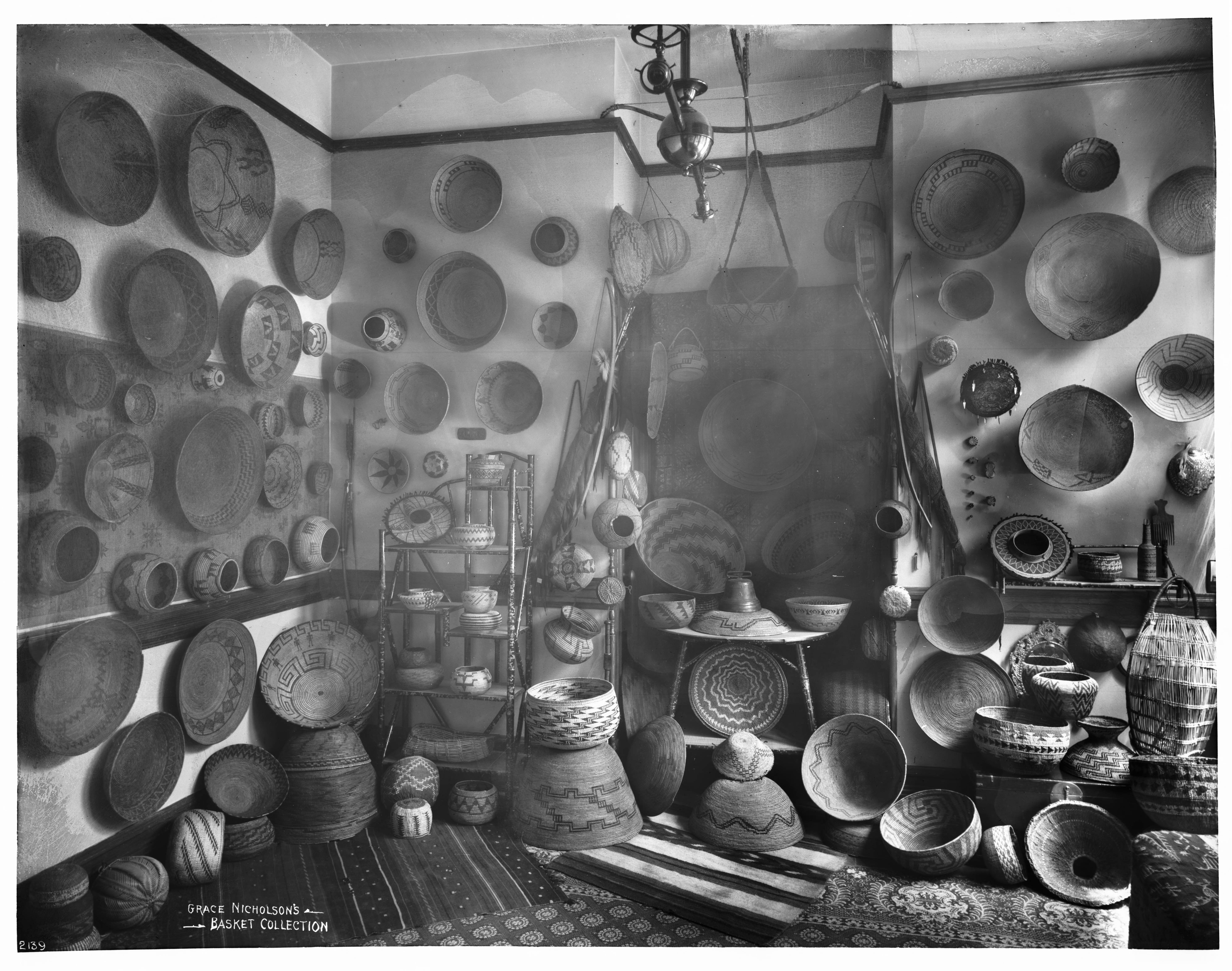 Indian basket collection of Miss Grace Nicholson, ca.1900 Photograph of the Indian basket collection of Miss Grace Nicholson, ca.1900. About one hundred baskets of enormous variety in style and size hang on the walls of a room or sit on a small table of shelves. A layer of at least five Indian rugs is visible on the floor. Call number: CHS-2139 Photographer: Pierce, C.C. (Charles C.), 1861-1946 Provenance: Grace Nicholson Filename: CHS-2139 Coverage date: circa 1900 Part of collection: California Historical Society Collection, 1860-1960 Format: glass plate negatives Type: images; physical objects Part of subcollection: Title Insurance and Trust, and C.C. Pierce Photography Collection, 1860-1960 Repository name: USC Libraries Special Collections Accession number: 2139 Microfiche number: 1-162- Archival file: chs_Volume92/CHS-2139.tiff Repository address: Doheny Memorial Library, Los Angeles, CA 90089-0189 Geographic subject (country): USA Format (aacr2): 2 photographs : glass photonegative, photoprint, b&w ; 21 x 26 cm. Rights: Digitally reproduced by the USC Digital Library; From the California Historical Society Collection at the University of Southern California Subject (adlf): tribal areas Project: USC Repository Contributing entity: California Historical Society Date created: circa 1900 Publisher (of the digital version): University of Southern California. Libraries Format (aat): photographic prints; photographs Geographic subject (state): California Subject (file heading): Indians -- Arts and crafts -- Basketry Legacy record ID: chs-m15335; USC-1-1-1-14023 Access conditions: Send requests to address or e-mail given. Phone (213) 821-2366; fax (213) 740-2343. Geographic subject (county): Los Angeles Subject (lcsh): Indians of North America; Indians of North America -- Industries; Baskets; Indians of North America -- Basket making